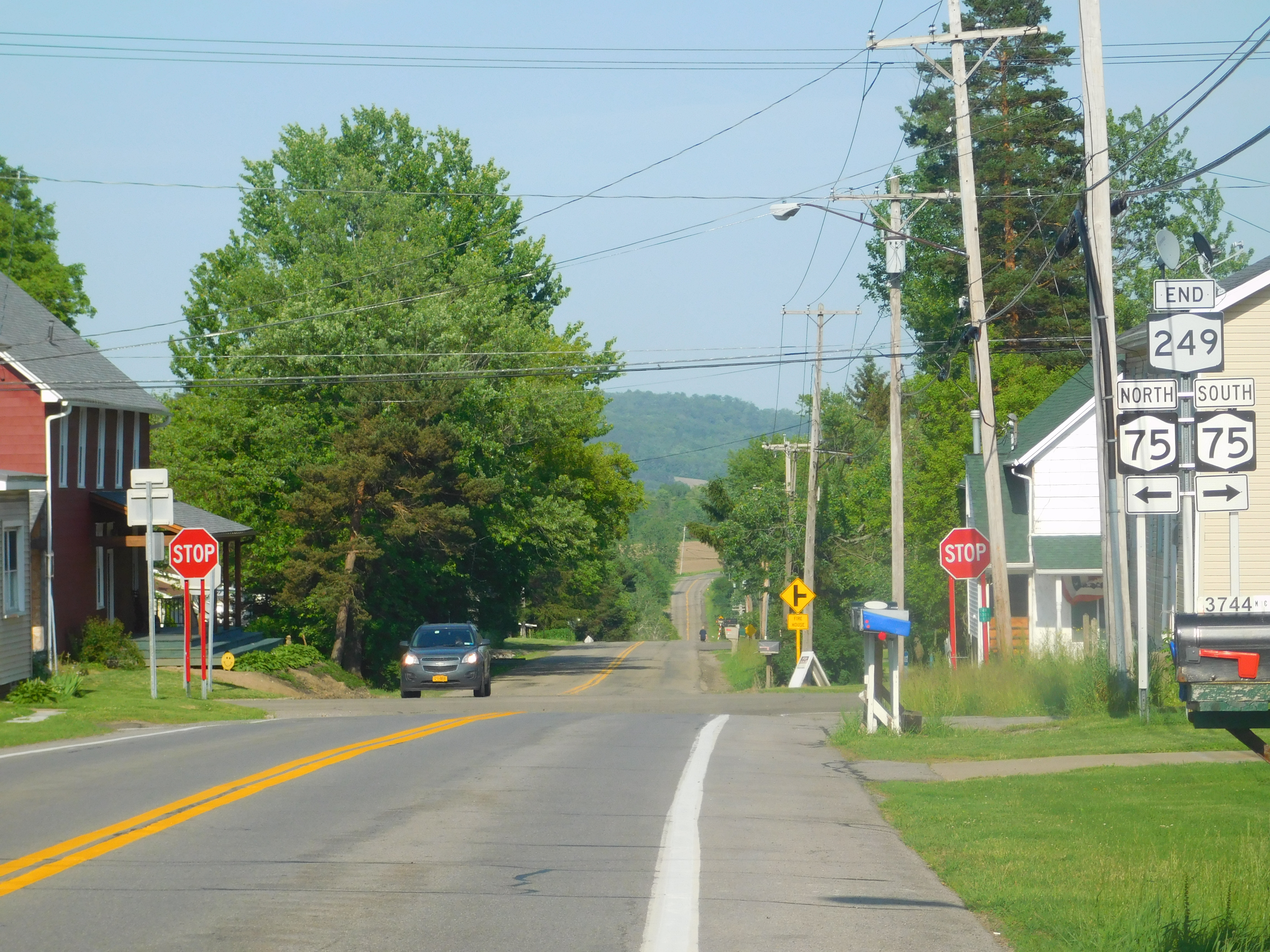 NY 249 approaching NY 75 in Langford, New York.